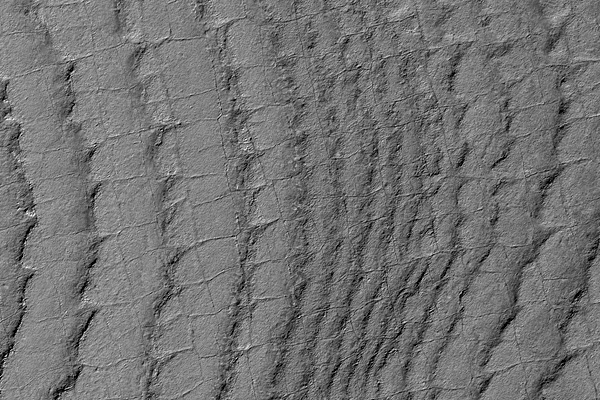 South pole layers with polygonal fracturing as seen with HiRISE. Location is 86.4 degrees south latitude and 180.2 degrees west longitude. Image was taken by HiRISE on the Mars Reconnaissance Orbiter. Photo credit is Image NASA/JPL/University of Arizona.